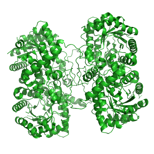 Ribbon view of the betaine homocysteine methyltransferase from Rattus norvegicus; visualized using PyMol.